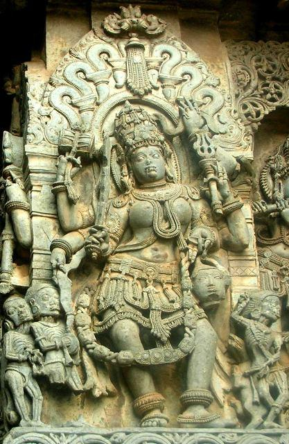 Chamunda